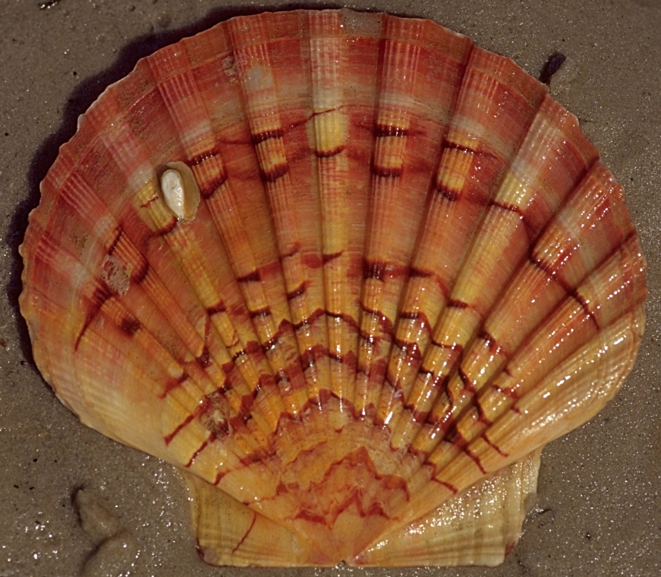 Pecten jacobaeus Photo was taken using the following technique: Film: Lens: 2.8/100 Macro Filter: none Body: Minolta 7 Support: none Image with Information in English Bild mit Informationen auf Deutsch